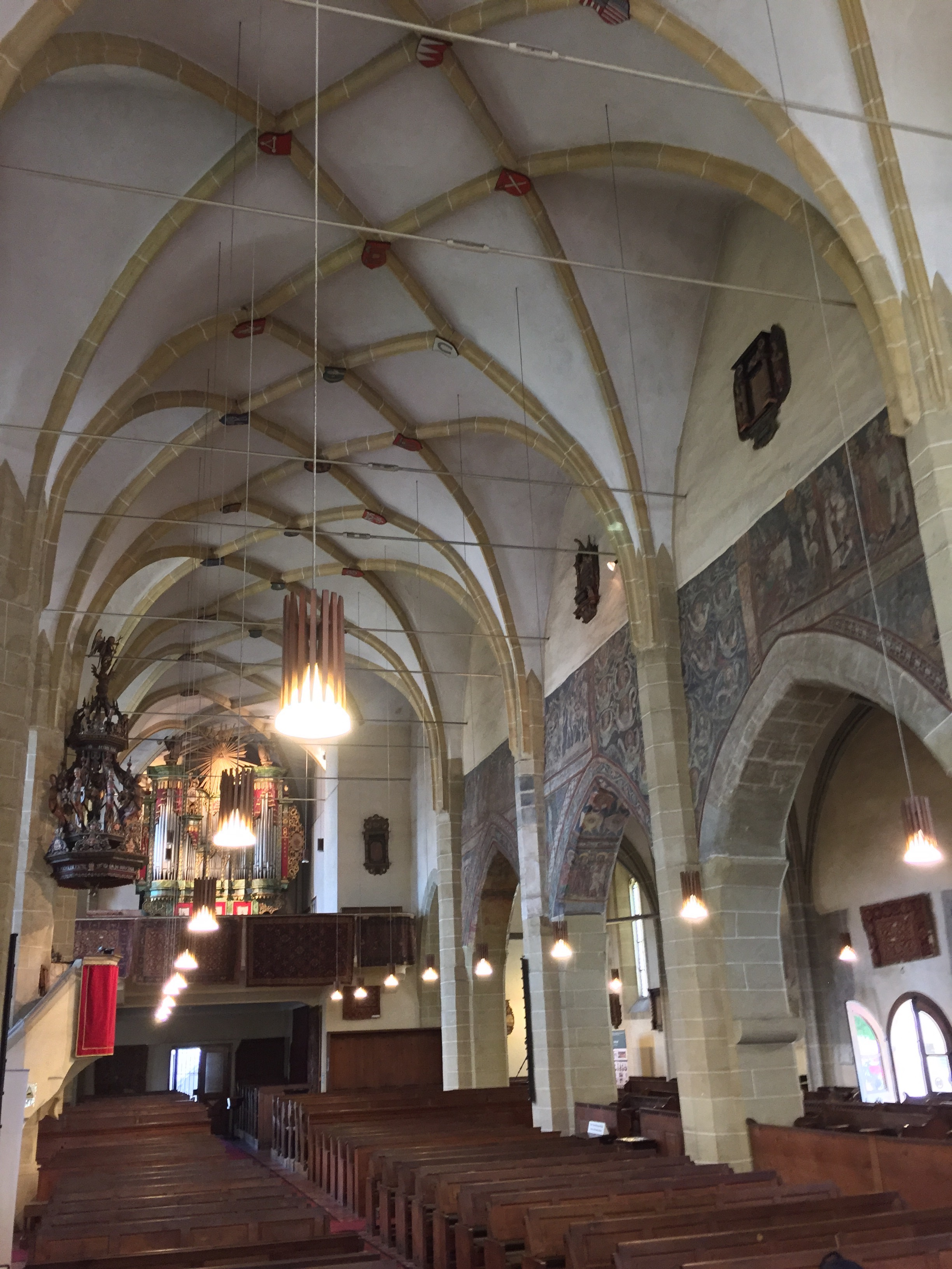 St. Margaret's church in Mediaș is a late Gothic fortified church in Transylvania, Romania. The center of an active community of the Evangelical Church A.C. in Romania, the building harbours a rich cultural heritage, materially and spiritually.